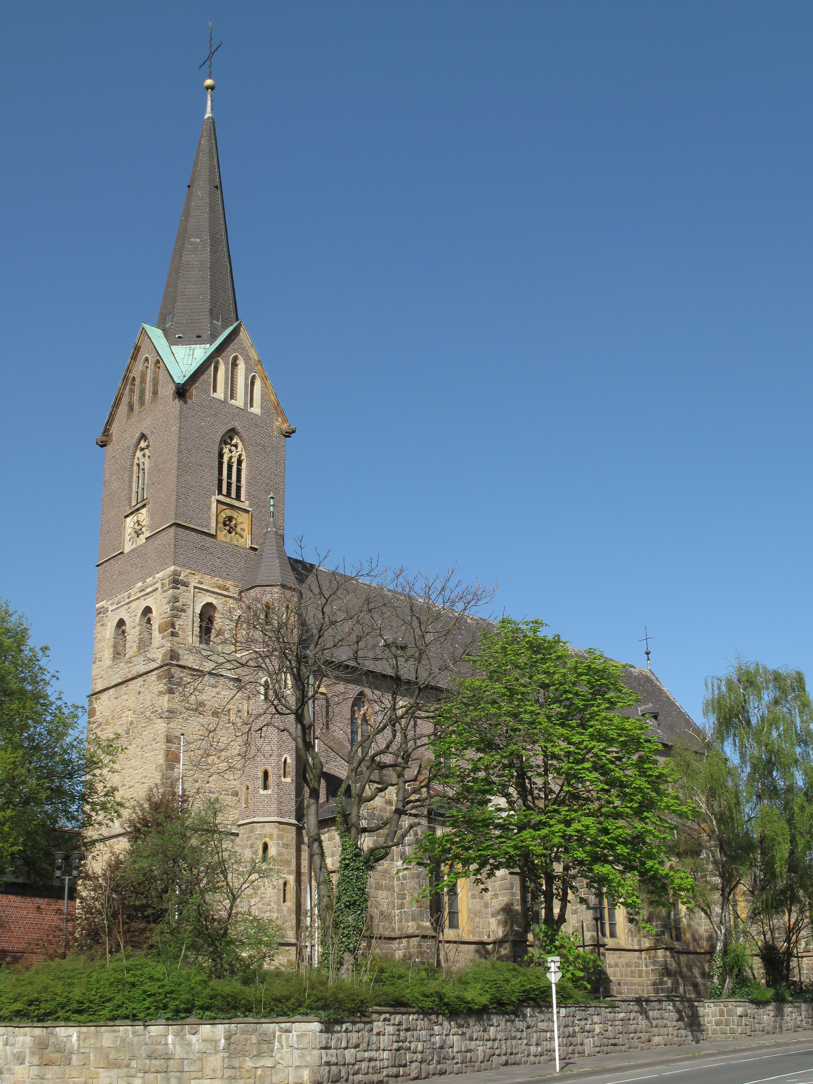 Marl, church